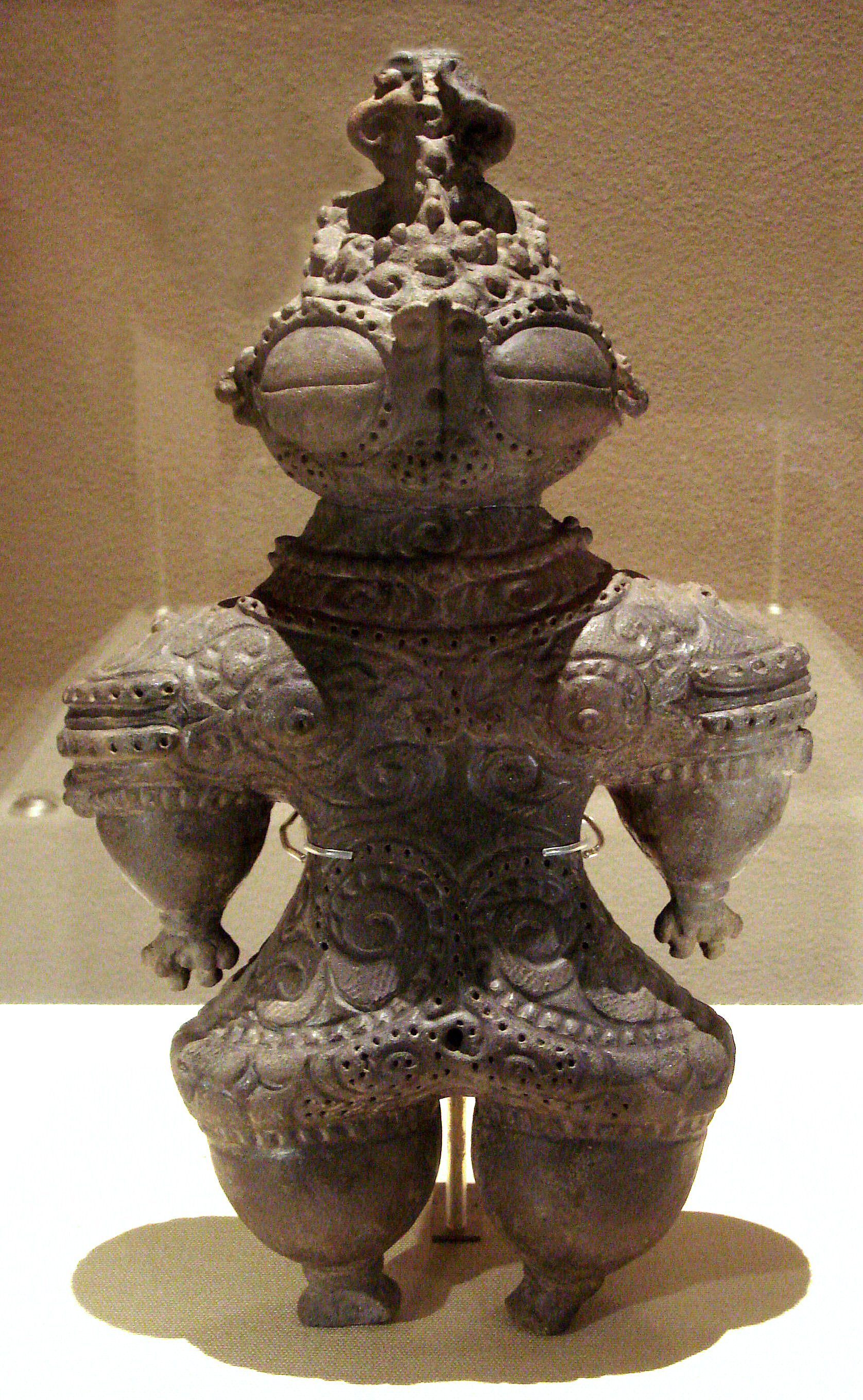 Dogu_Miyagi_1000_BCE_400_BCE; excavated from the Ebisuda Site in Osaki, Miyagi; Important Cultural Property; Tokyo National Museum [1]